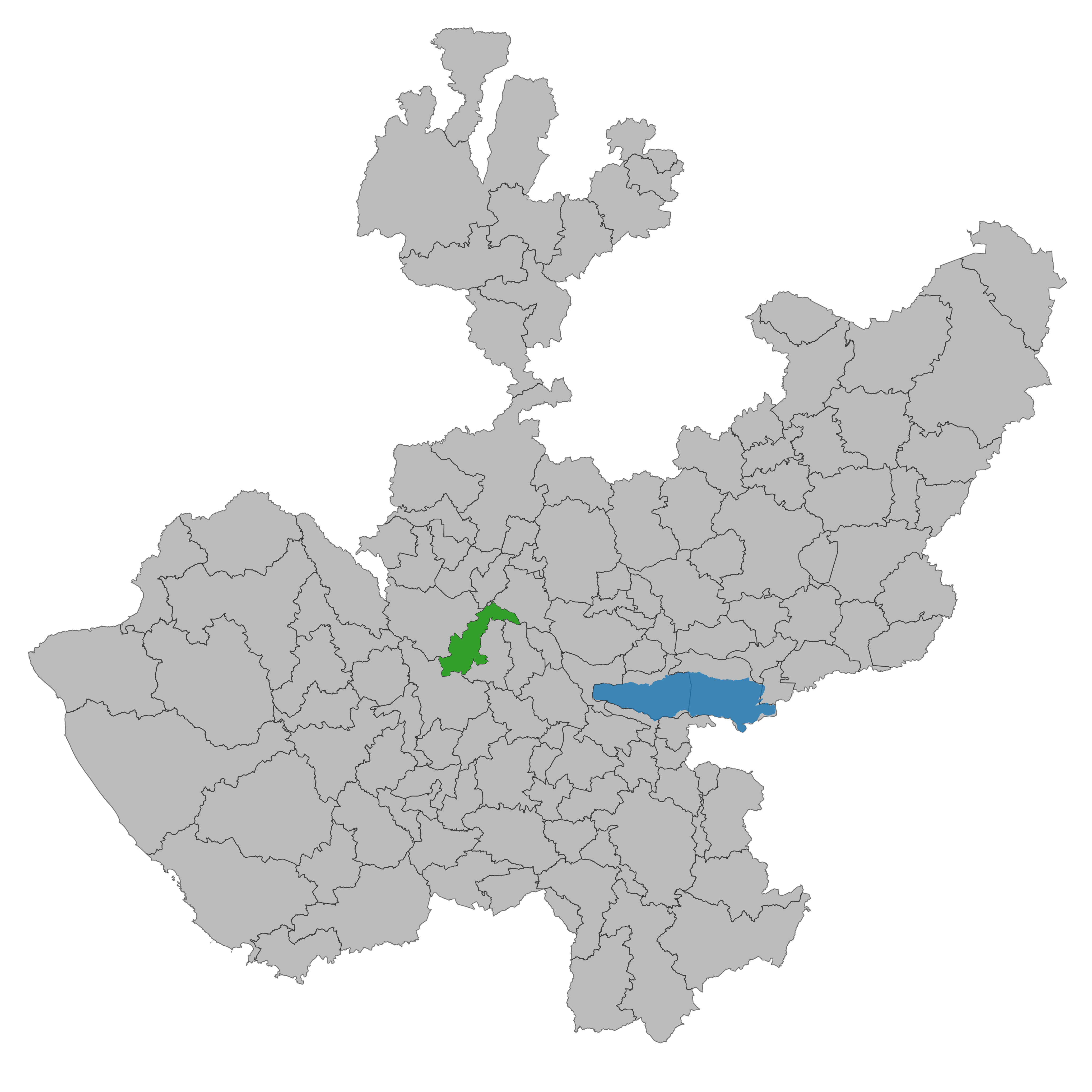 Municipality of Jalisco. Prepared with the software QGIS version 2.8.2 Wien & with information of SCINCE 2010 version 05/2013